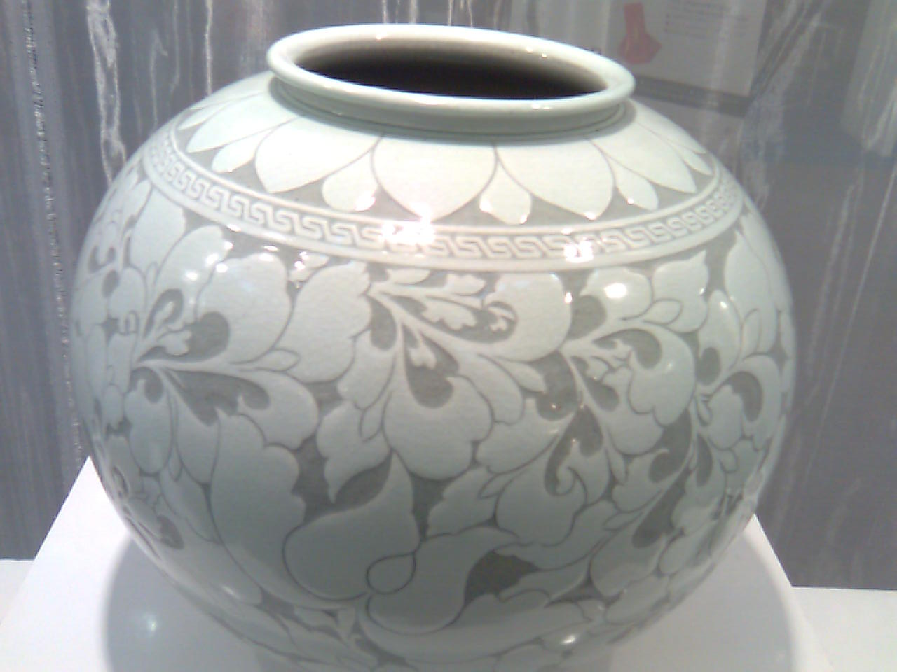 Buncheong, one of the Joseon style ceramic arts (분청사기;粉靑沙器), at the exhibition titled “The Light of Millennium of Korean Ceramics” in Jakarta, Indonesia, November 2008.